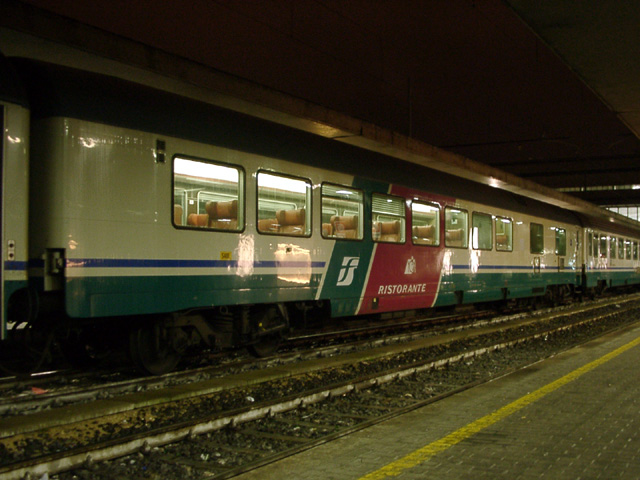 Carrozza Ristorante Trenitalia in livrea XMPR. Stazione di Roma Termini, Italia.